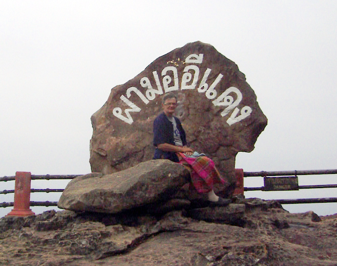 Pha Mo I Daeng Rock with "mo" in the background. The blurry fellow on the rock is Pawyilee.